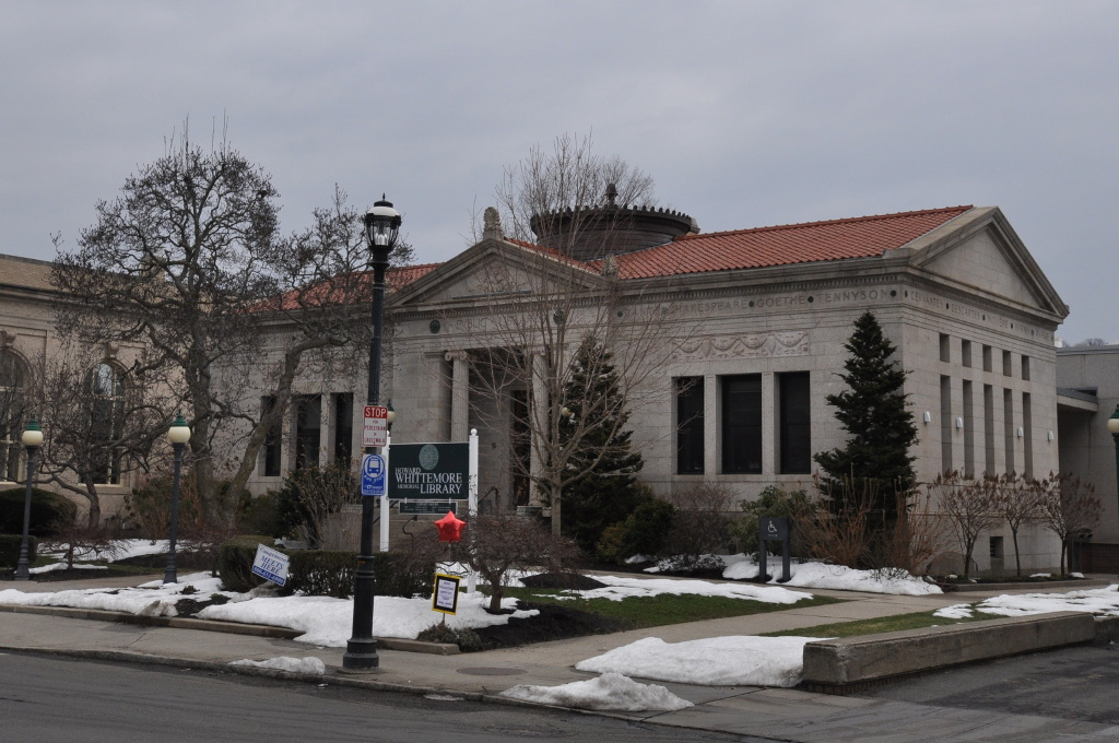 Whittemore Memorial Library, Naugatuck, Connecticut